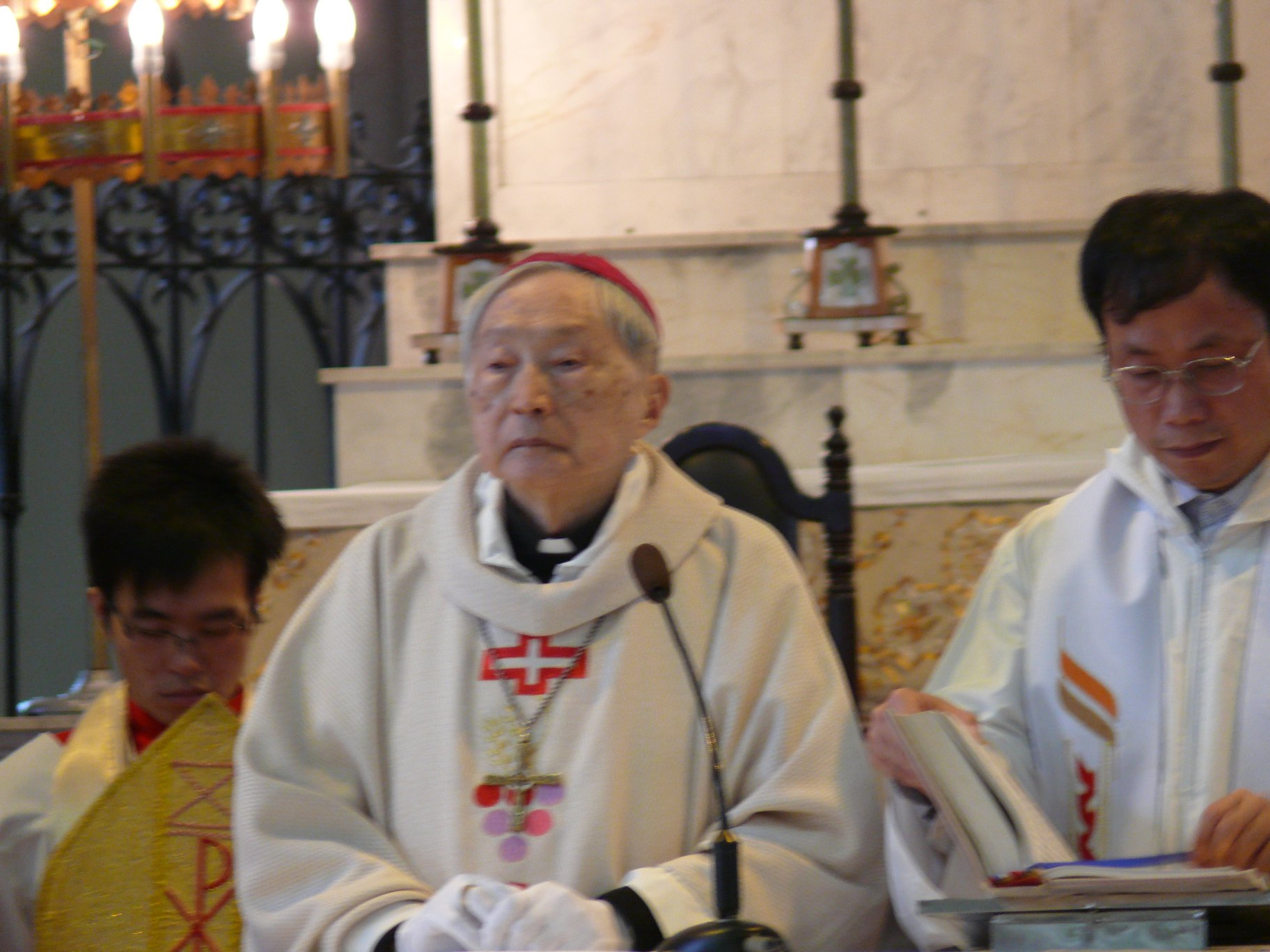 Aloysius Jin Luxian, bishop of Shanghai in Saint-Ignatus' cathedral.